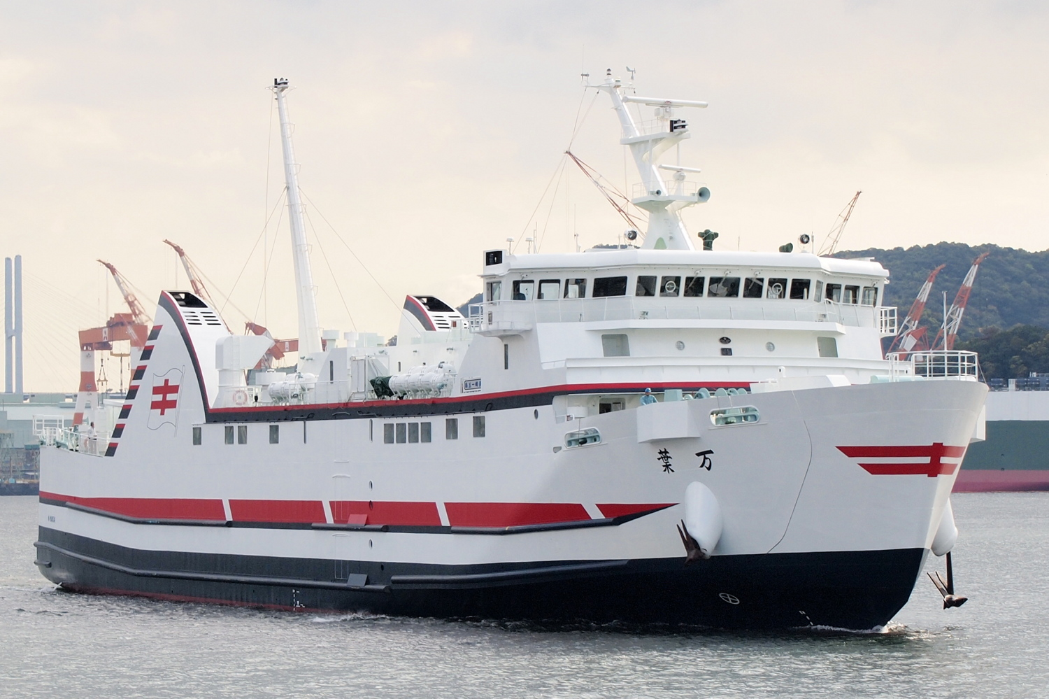 The ferry Manyou in the port of Nagasaki IMO Number: 9610133 MMSI Number: 431002428 Callsign: JD3130 Length: 87 m Beam: 15 m